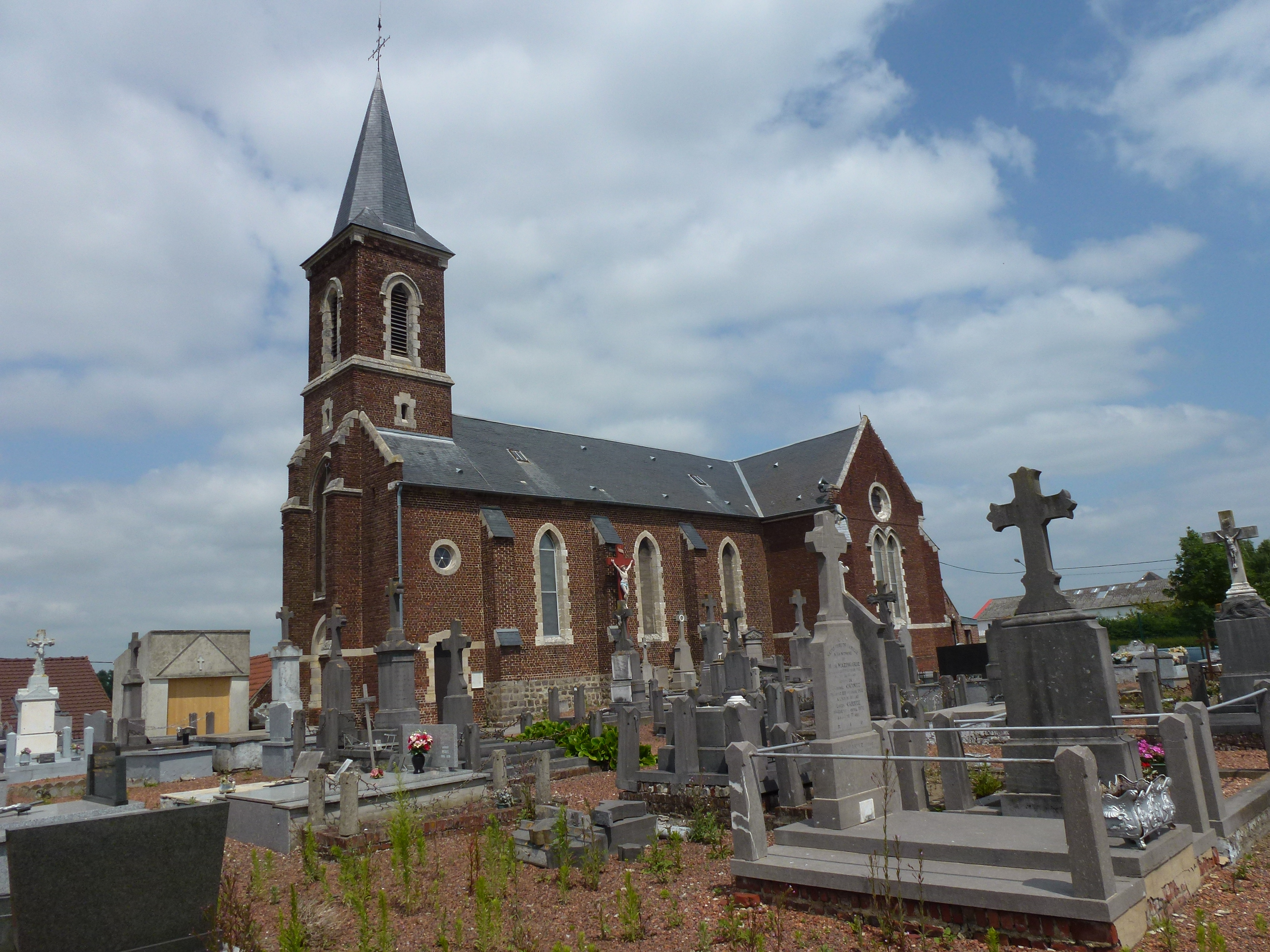 Isbergues Berguette (Pas-de-Calais) église